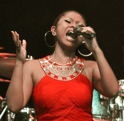 Dira Sugandi performing in concert